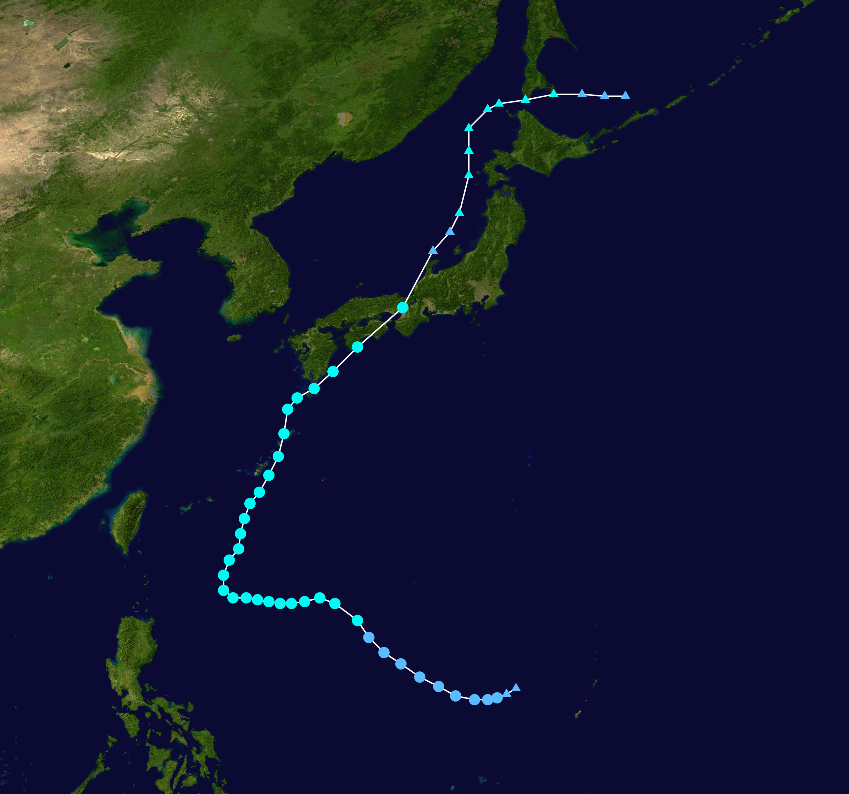 Track map of Tropical Storm Helen of the 1966 Pacific typhoon season. The points show the location of the storm at 6-hour intervals. The colour represents the storm's maximum sustained wind speeds as classified in the Saffir-Simpson Hurricane Scale (see below), and the shape of the data points represent the nature of the storm, according to the legend below. Saffir–Simpson hurricane wind scale Tropical depression≤38 mph≤62 km/h Category 3111–129 mph178–208 km/h Tropical storm39–73 mph63–118 km/h Category 4130–156 mph209–251 km/h Category 174–95 mph119–153 km/h Category 5≥157 mph≥252 km/h Category 296–110 mph154–177 km/h Unknown Storm typeTropical cycloneSubtropical cycloneExtratropical cyclone / Remnant low / Tropical disturbance